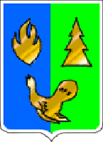 Coat of Arms of Sovetsky rayon (Khanty-Mansyisky AO)